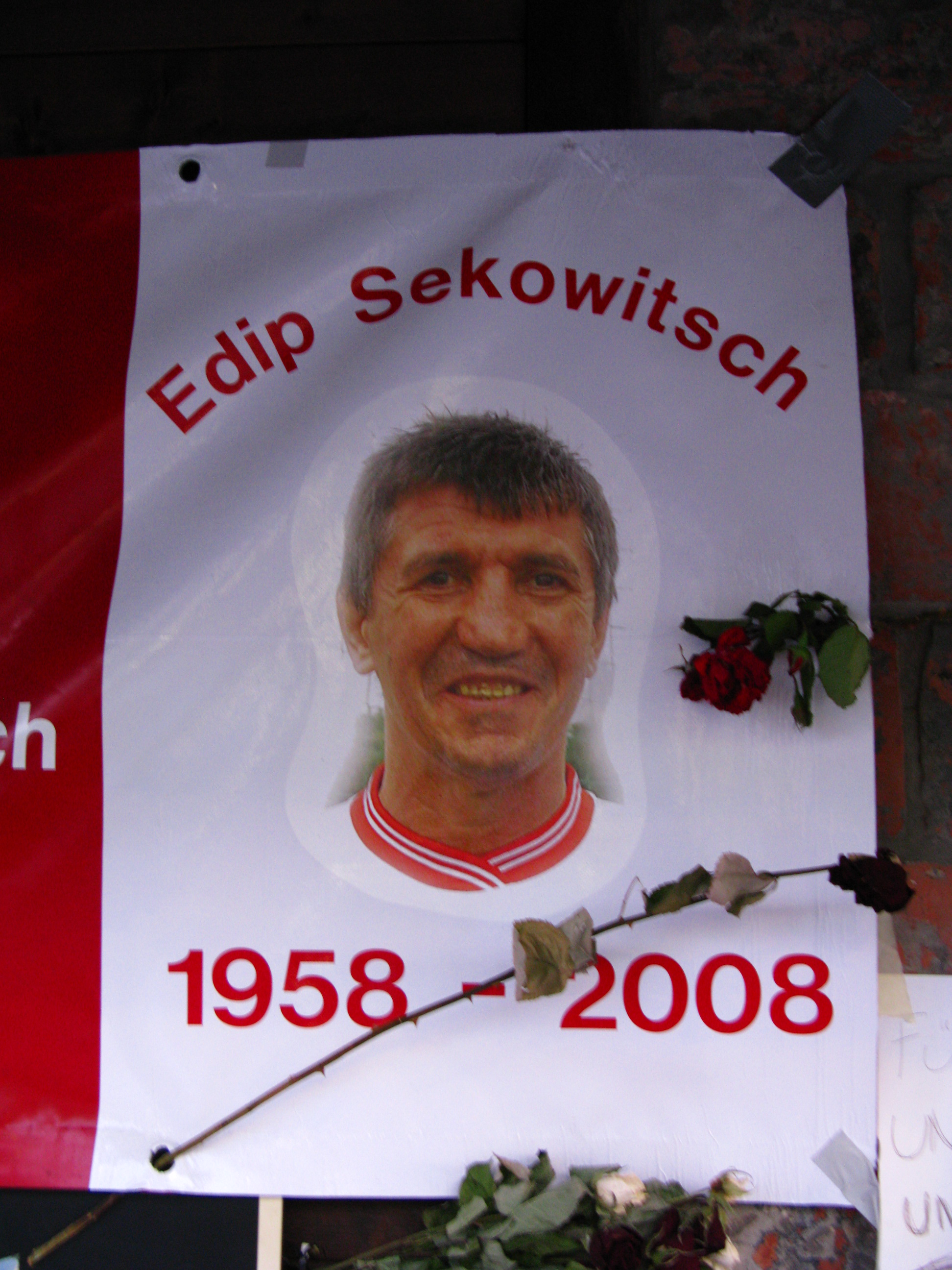 The Austrian Edip Sekowitsch.